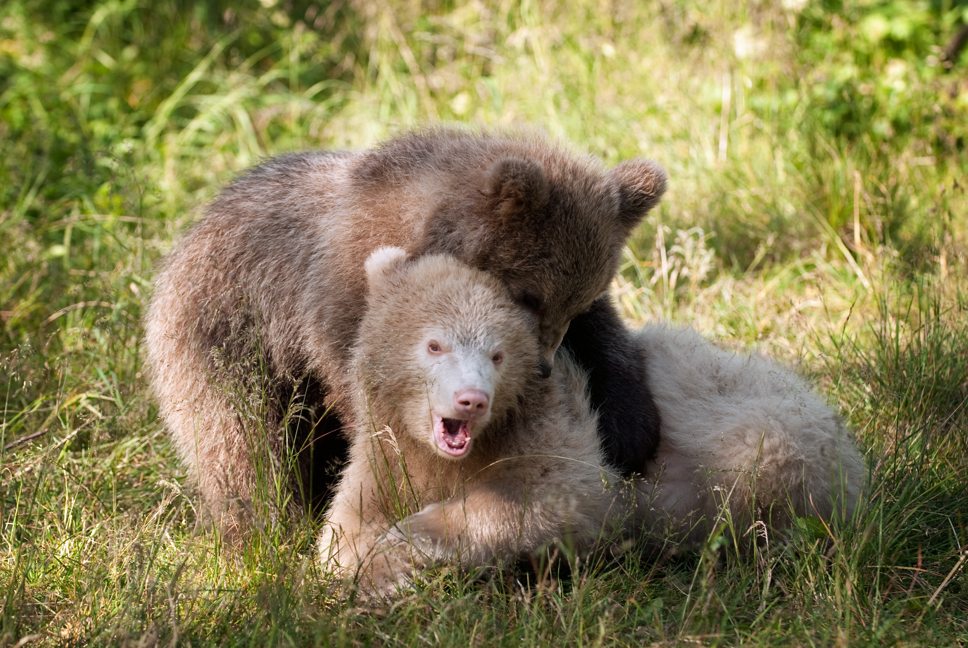 Brunbjörn fotograferad på Polar Zoo Norge